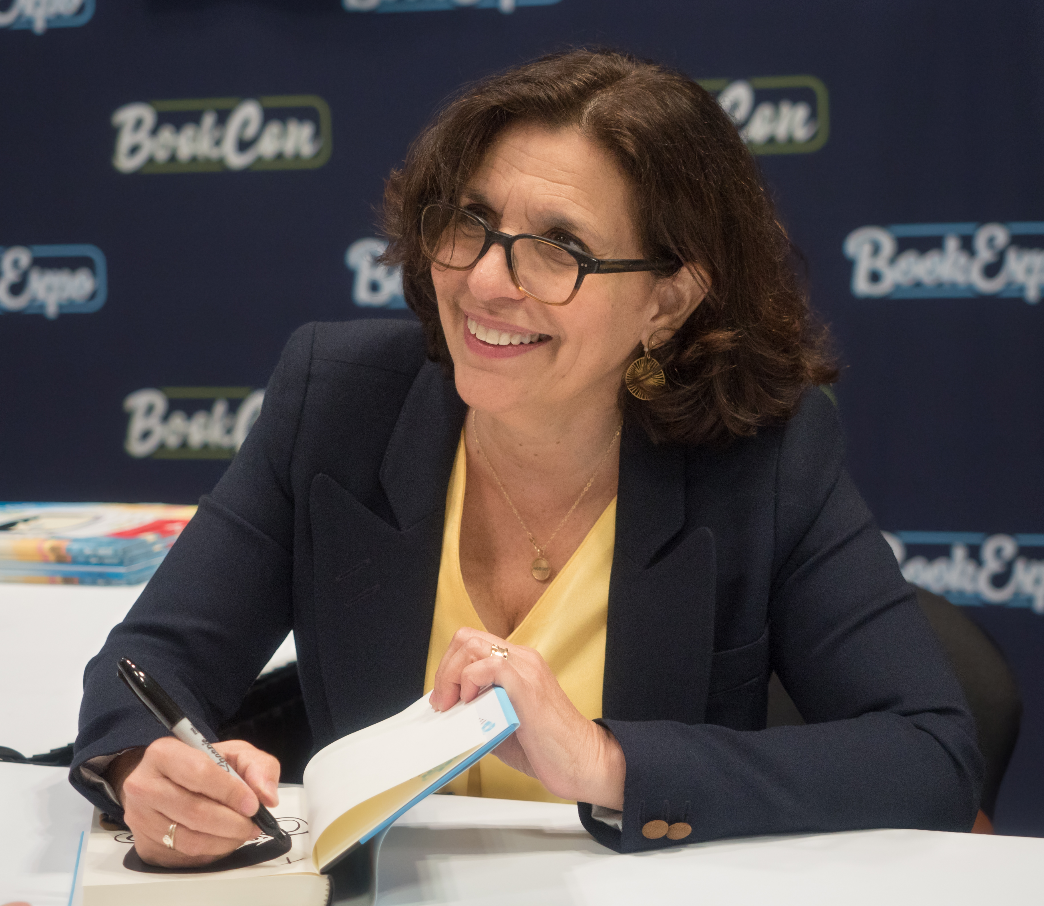 RJ Palacio at BookCon